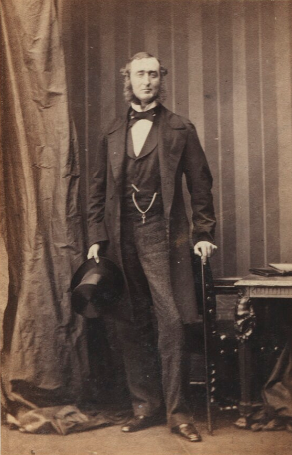 Portrait of Thomas Thoroton-Hildyard (1821–1888), English Conservative Party politician.